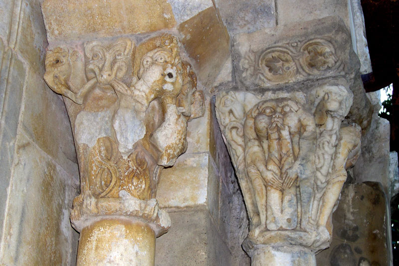 Camp Monastery. Passa, Pyrénées-Orientales, France